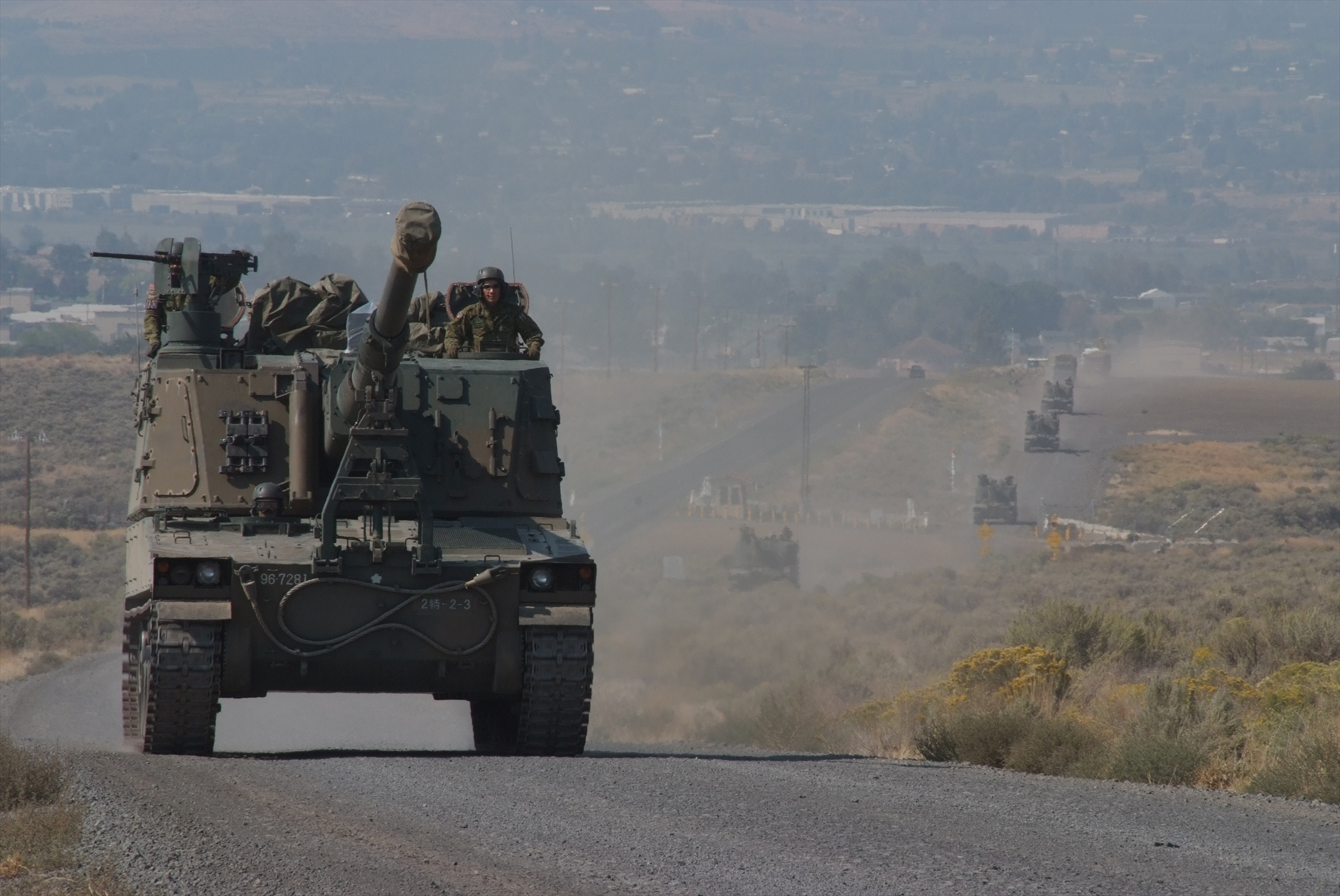 Title ９９式自走１５５ｍｍ榴弾砲24.09.17 ２Ｄ・ライジングサンダー_R.JPG Album 装備 ９９式自走１５５ｍｍ榴弾砲（米国における米陸軍との実動訓練・第２師団）